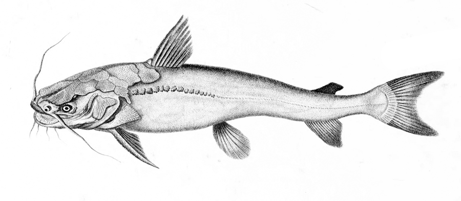 Hexanematichthys sagor